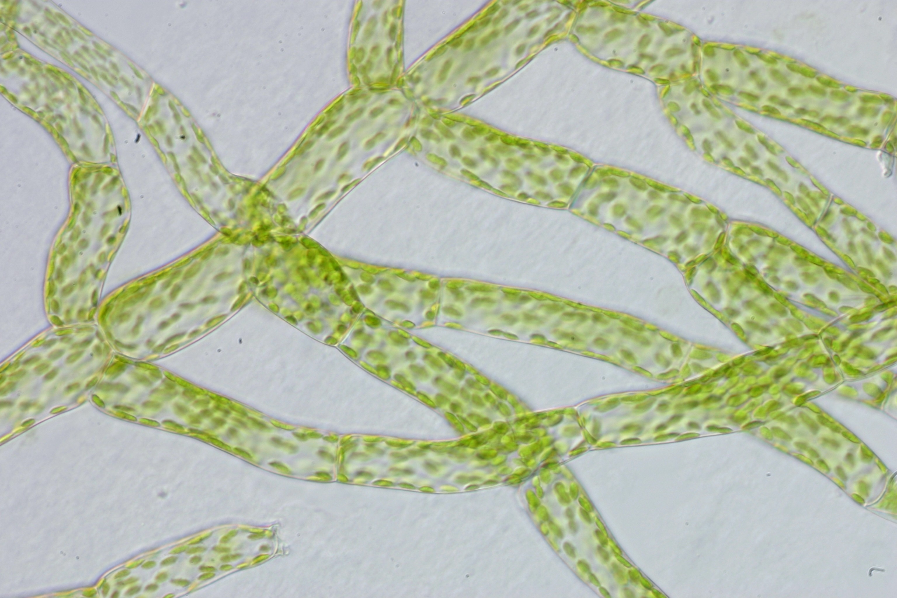 Protonemacells of Physcomitrella patens.